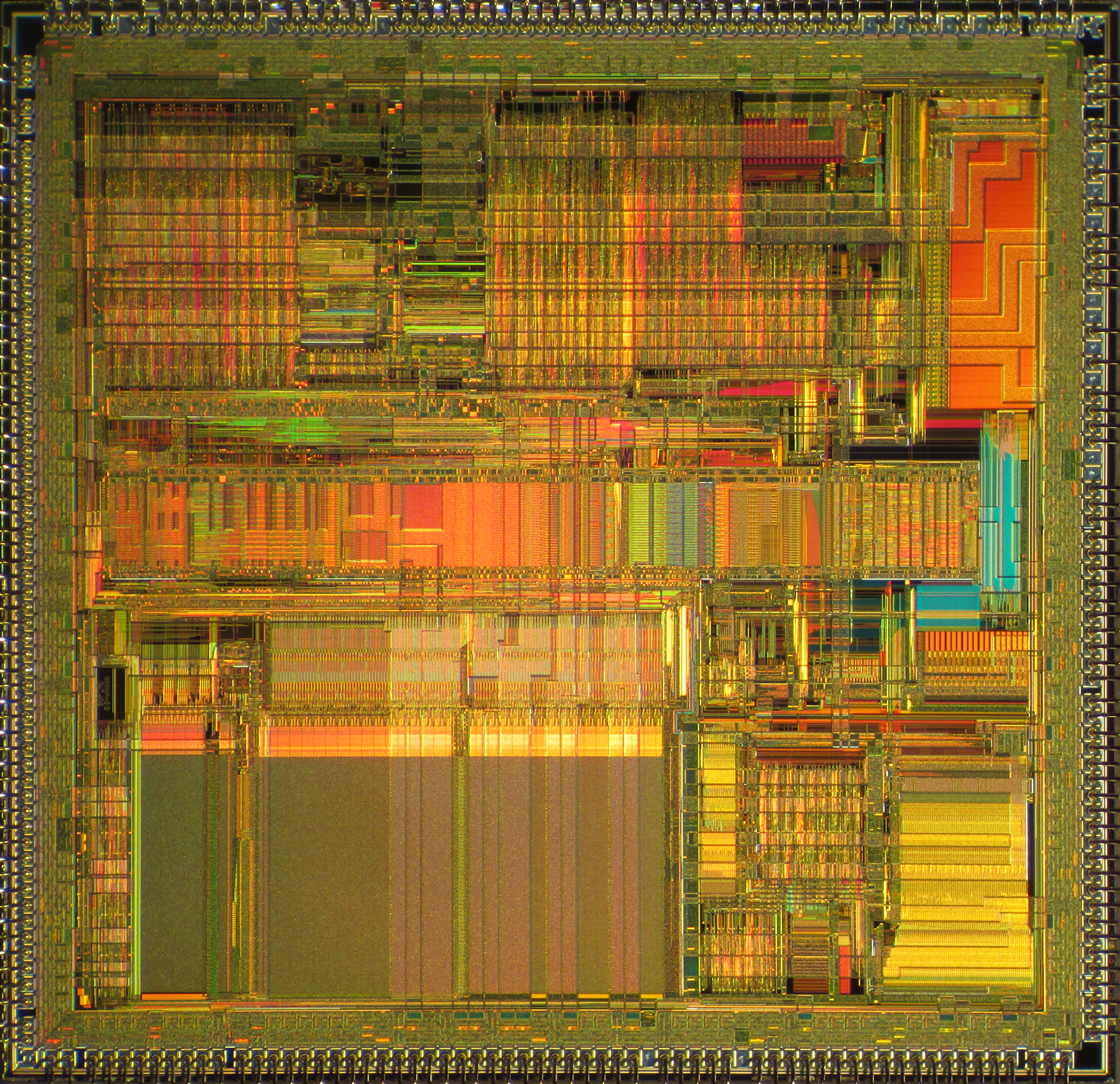 Die shot of Intel 80486 DX4-100 microprocessor (SX900 with write-through cache).